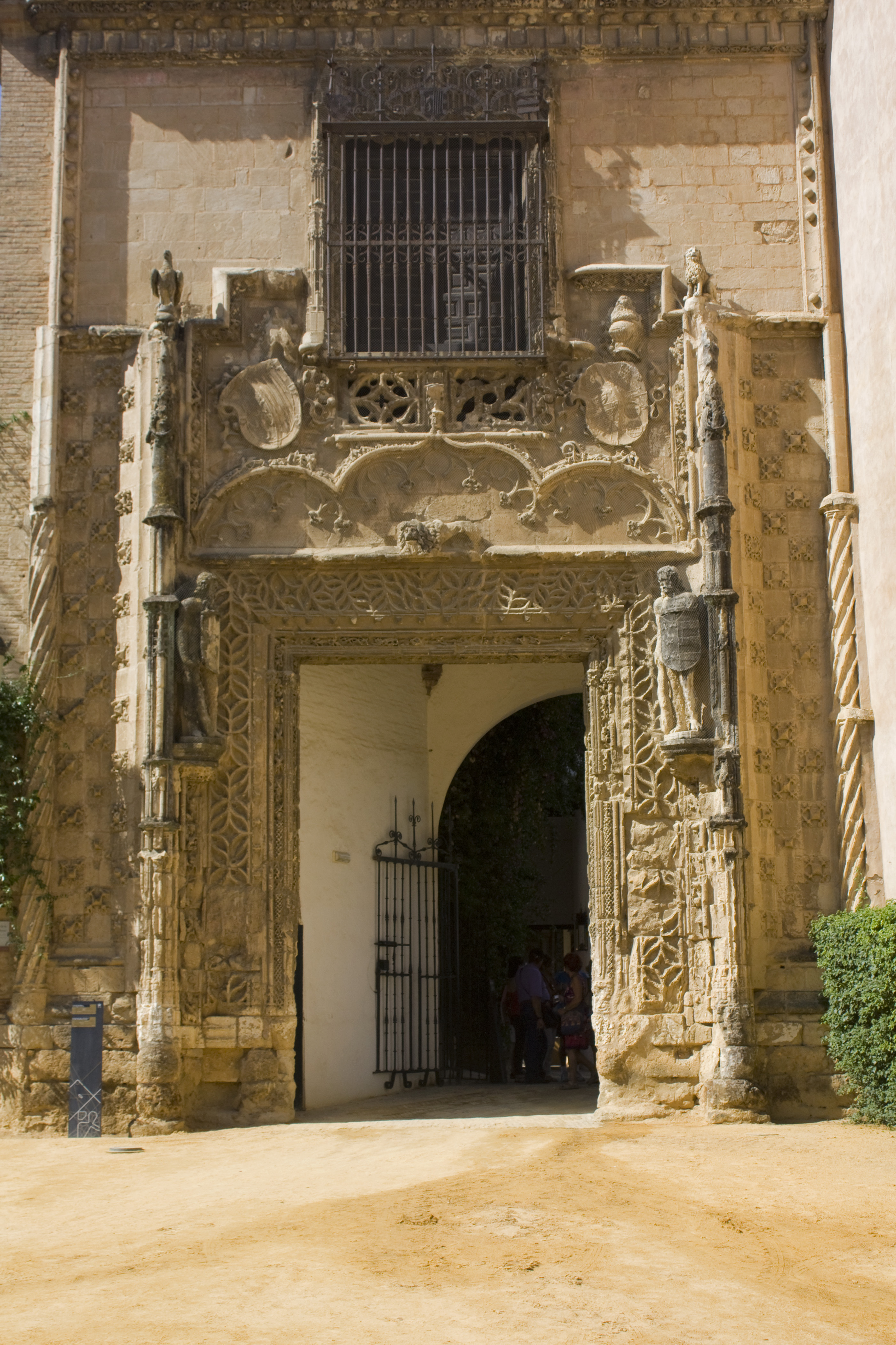 Gate of the Palace of the Dukes of Arcos Marchena.